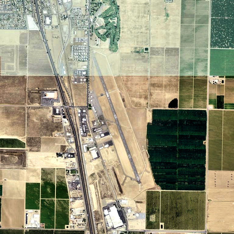 USGS digital orthophoto of Delano Municipal Airport in Delano, Kern County, California, United States